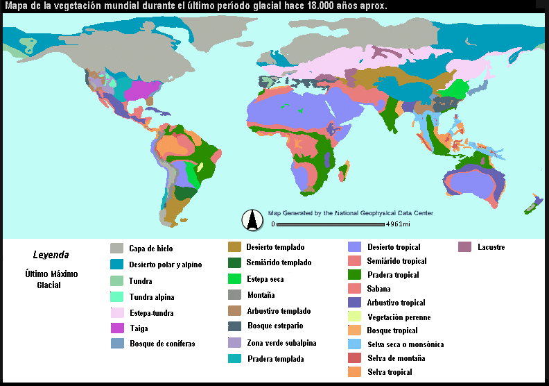 Last glacial vegetation map in spanish